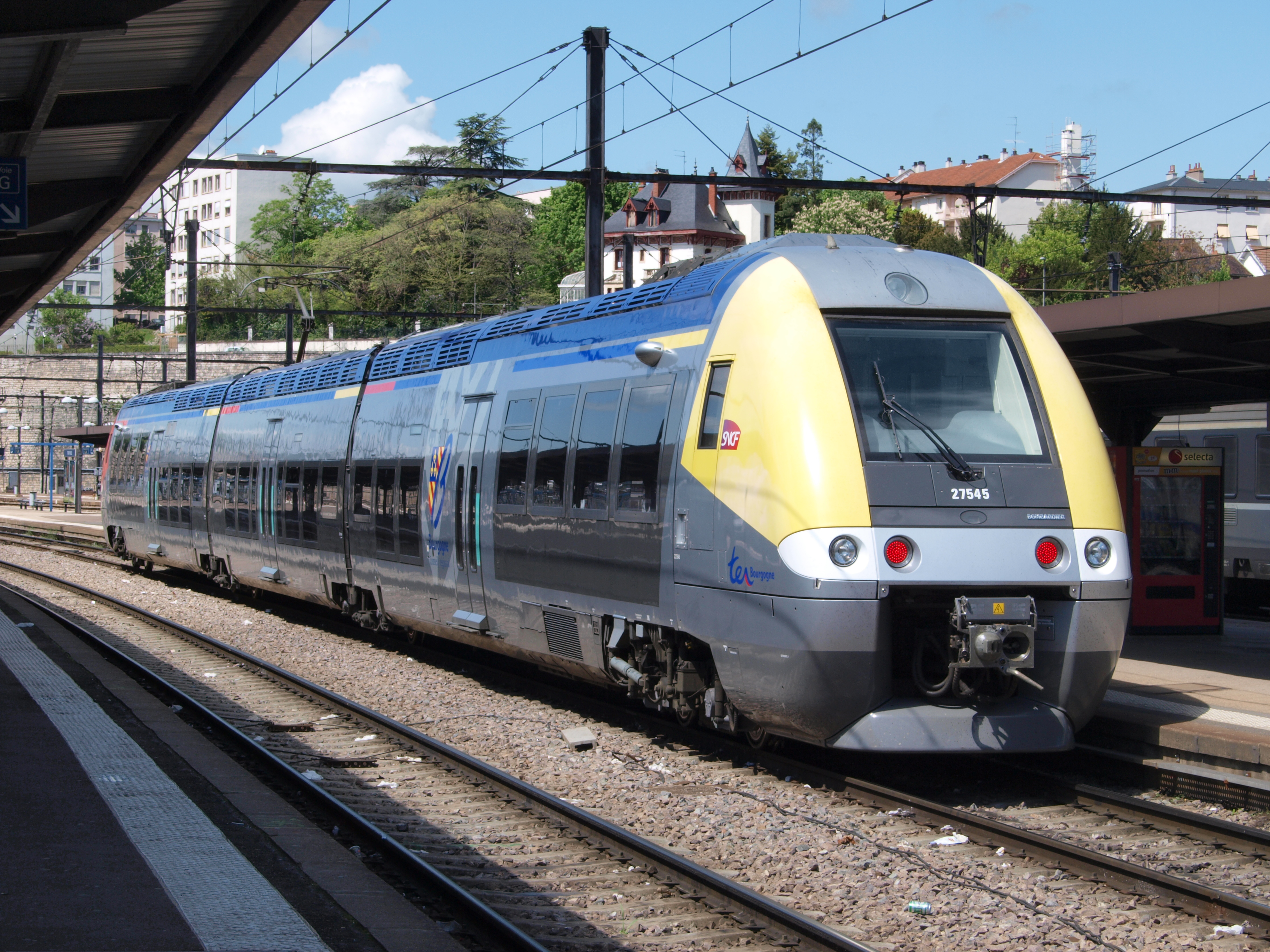 Photographed in France. (EMU means electric multiple unit.)